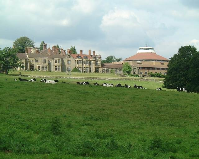 Worth Abbey, West Sussex, seen from the south. On the left is the school, designed by Anthony Salvin as a country house and built 1869–72. On the right is the abbey church of Our Lady Help of Christians.